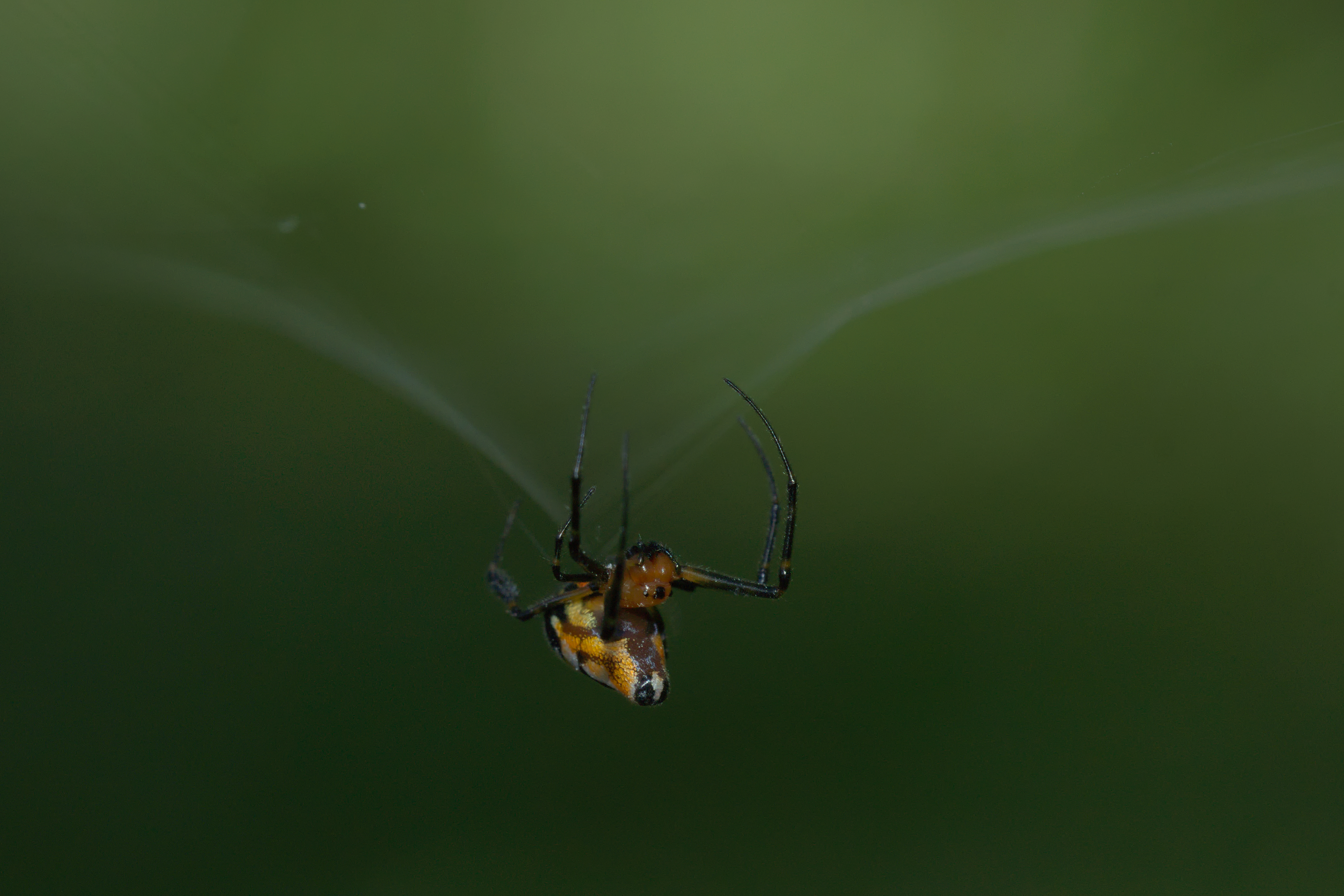 Opadometa fastigata, Pear-Shaped Leucauge, is a Long-jawed orb weaver (Tetragnathidae family), found in India to Philippines, Sulawesi. They are elongated spiders with long legs and chelicerae. They are orb web weavers, weaving small orb webs with an open hub and few, wide-set radii and spirals. The webs have no signal line and no retreat. Members of the species Leucauge silvery or golden spots on the abdomen. The web is a large horizontally-placed orb structure with a diameter of more than a metre. The entire web is often suspended by several long strands of silk attached to branches and leaves nearby. Exactly how the silk strand comes into being inside the spider is a mystery. [1]